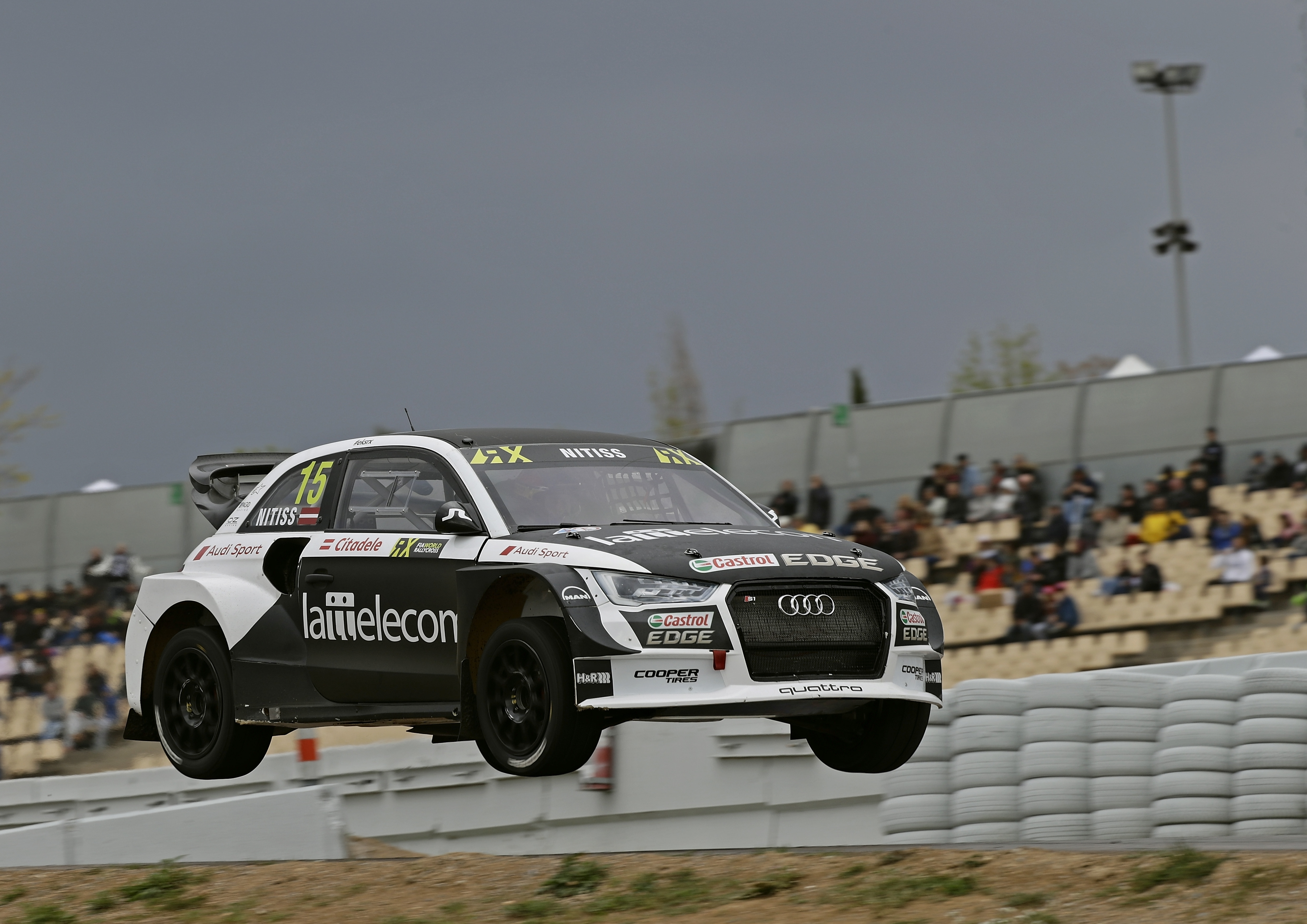 2017 FIA World Rallycross Championship // Round 01, Barcelona // Credit: EKS/Bodo Kraehling